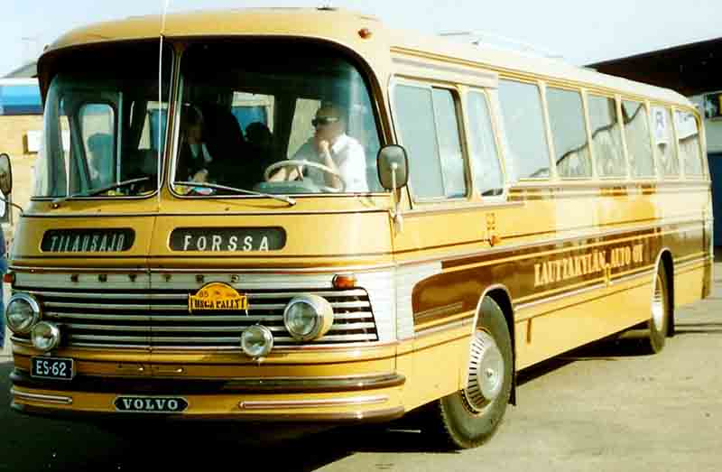 Kutter bus with Volvo B58 chassis (built 1968) of Lauttakylän Auto.